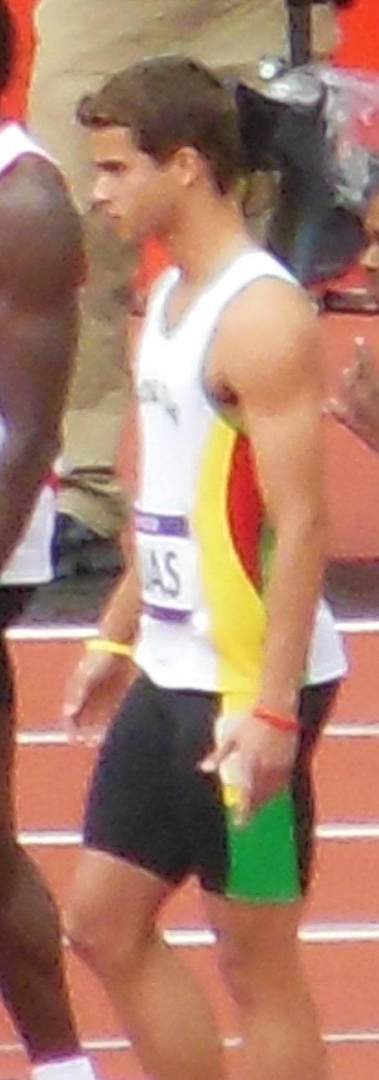 Athletics at the 2012 Summer Olympics – Men's 100 metres, Preliminaries heat 1:: Artur Bruno Rojas (Bolivia).